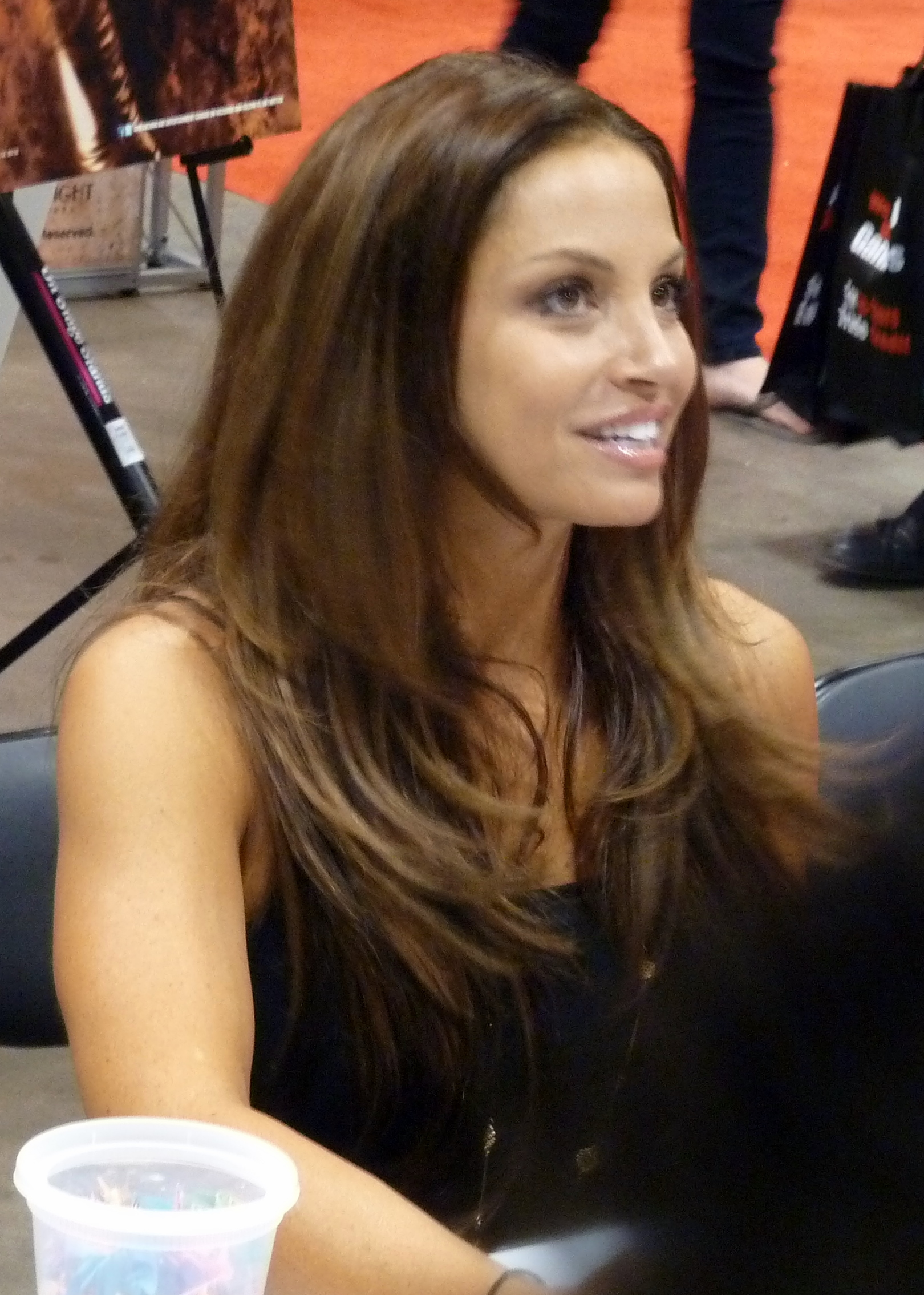 Trish Stratus at Fan Expo 2011 in Toronto